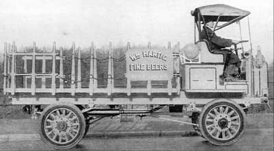 1917 FWD Beer truck Abresch body for Hartig Brewery